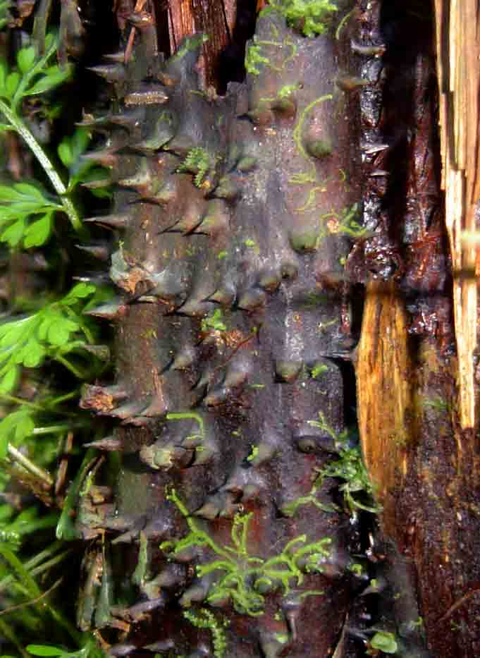 Cyathea manniana Hook. - Bart Wursten - Bunga Forest, Vumba, Zimbabwe